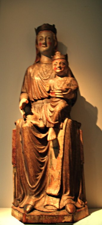 Mary and child wood ca 1250 in Bergen Museum